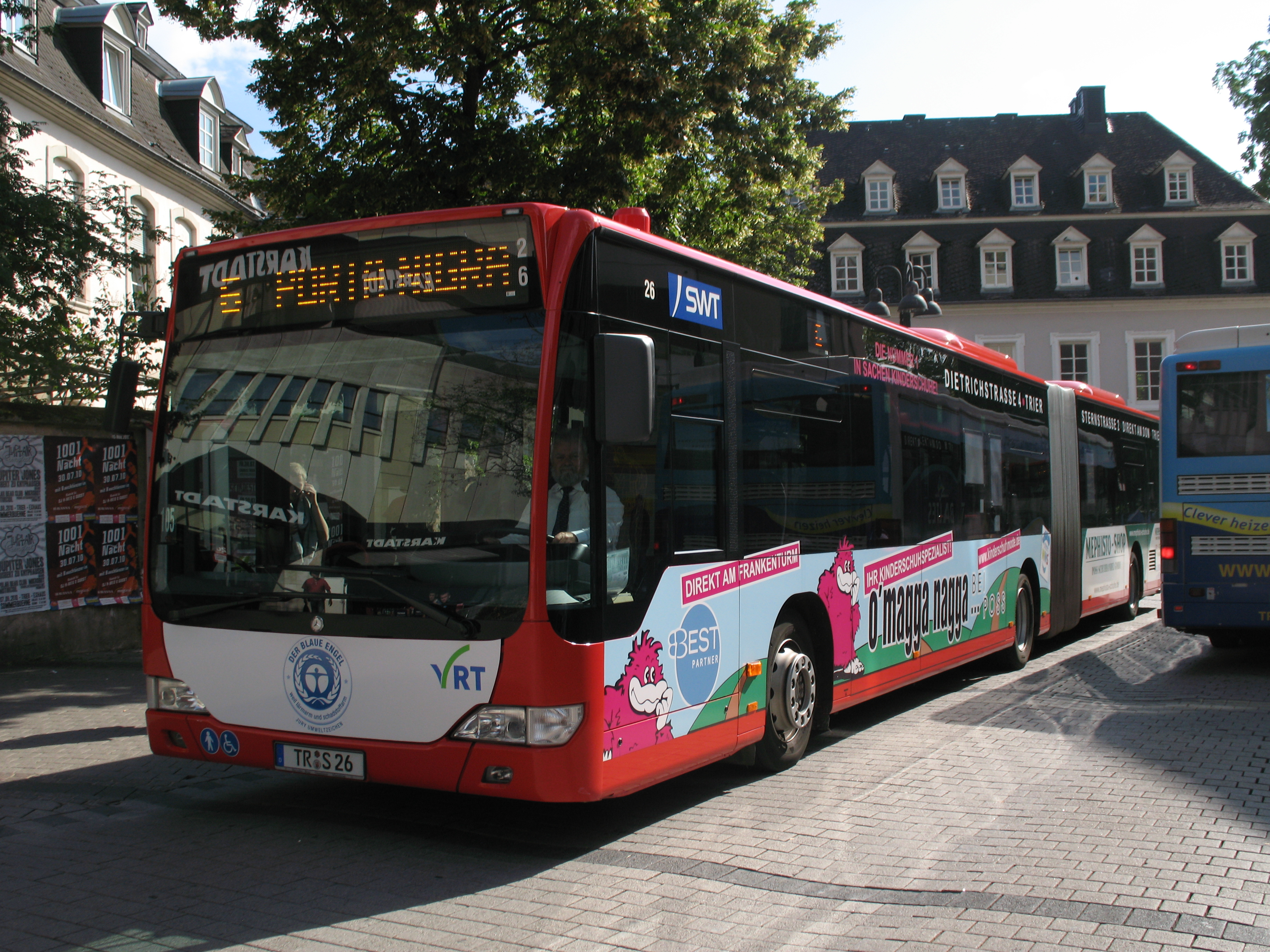 A articulated bus waiting at Treviris bus stop (Trier-TR-Germany...).